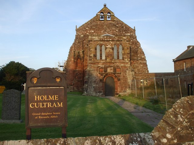 St Mary's Church, Abbeytown Parish church of Holme Cultram parish